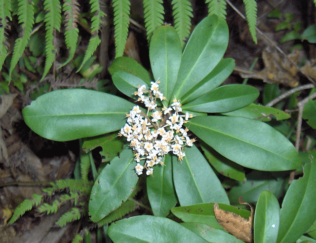 Found in Highlands Hammock State Park, Florida.